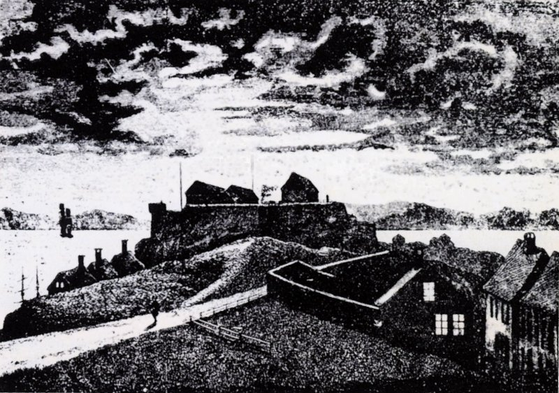 Photo by Nicolay Nilsen from 1875